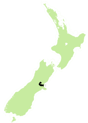 Map indicating the location of Waimakariri electorate based on 2008 boundaries.